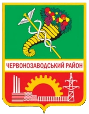 Ukraine.Kharkіv. The coat of arms of the Chervonozavodsky district (modern Osnovyansky district). Source taken video visitwise